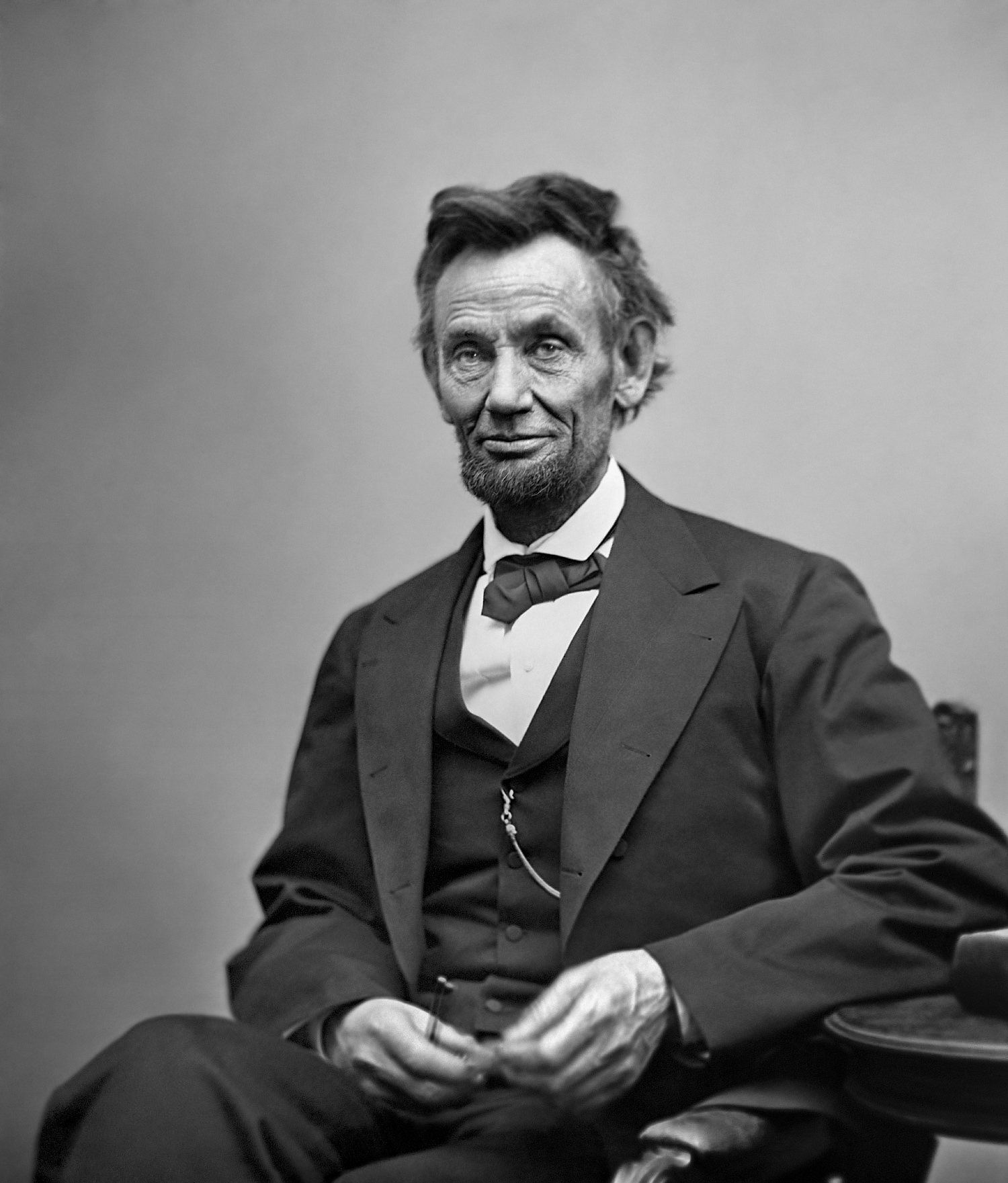 Abraham Lincoln, three-quarter length portrait, seated and holding his spectacles and a pencil